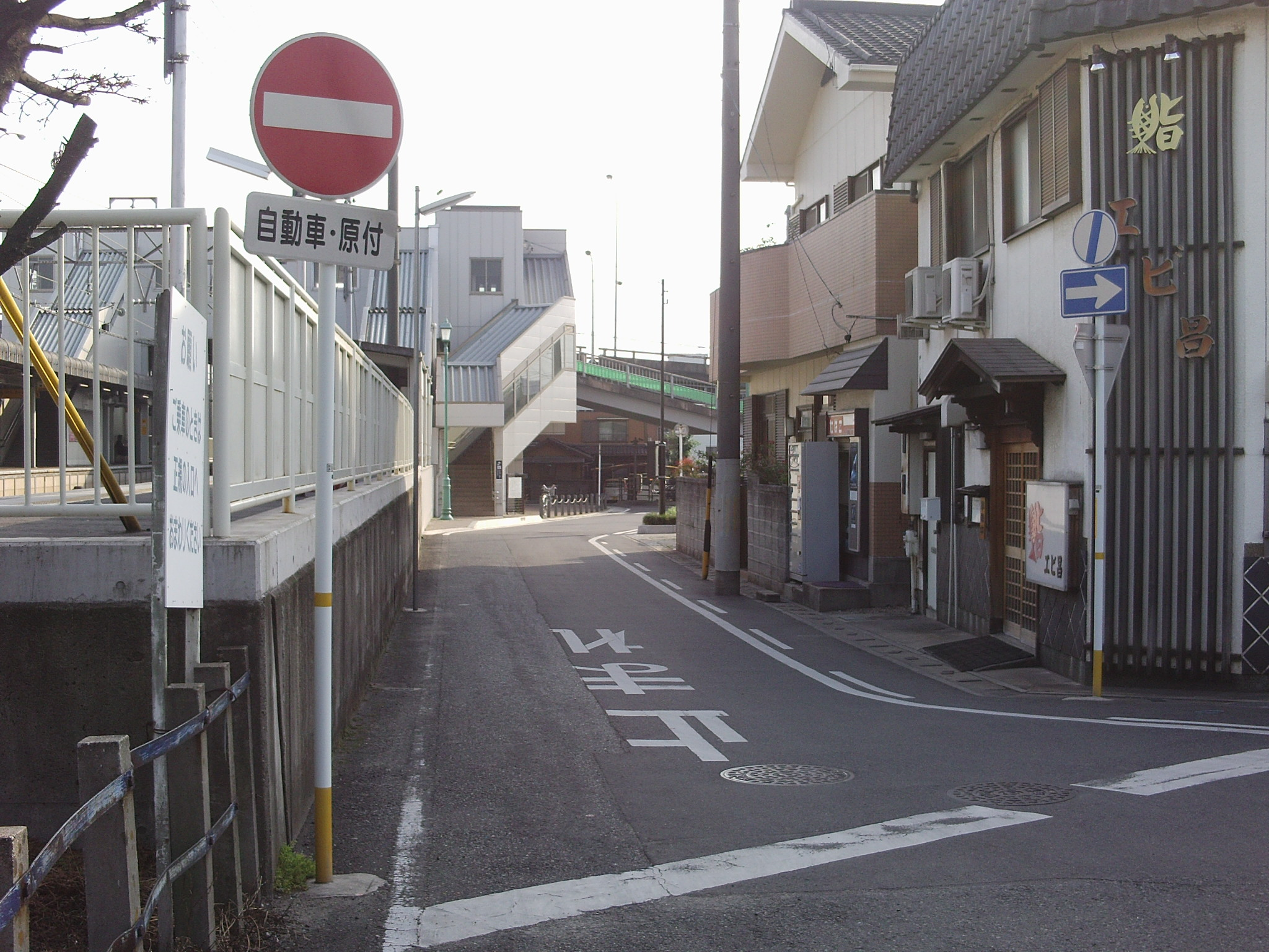 Aichi prefectural road No.251 in Yawata, Chita, Aichi. Teramoto station west side.